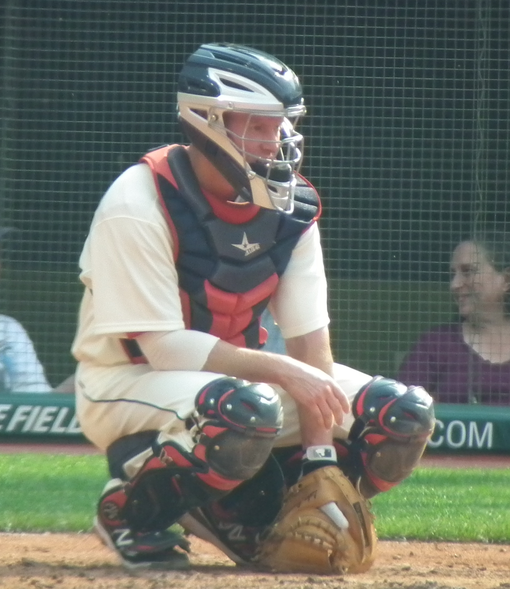 Luke Carlin, a catcher in the Cleveland Indians organization.